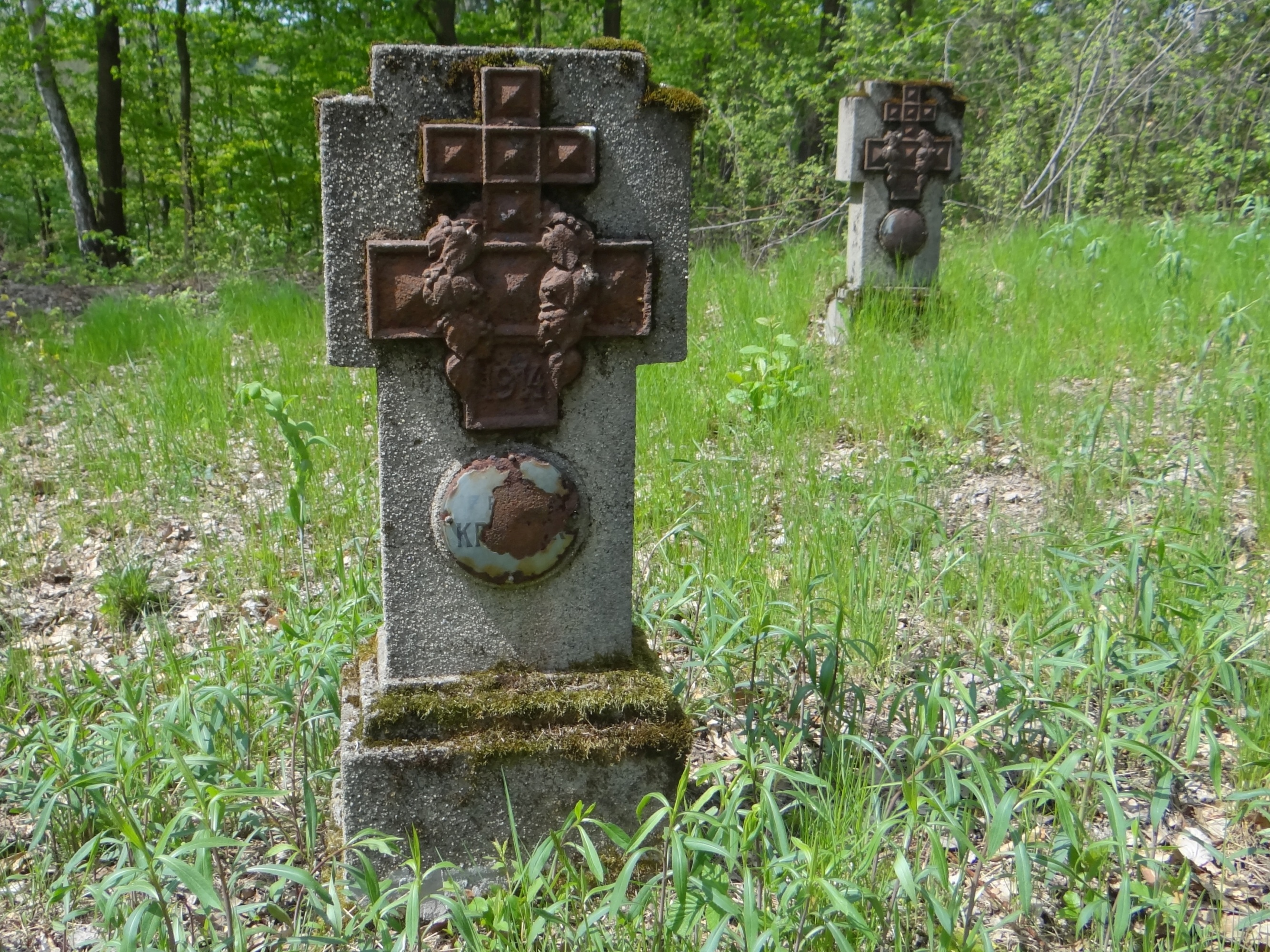 World War Cemetery nr 155 in Lichwin-Stadniczówka